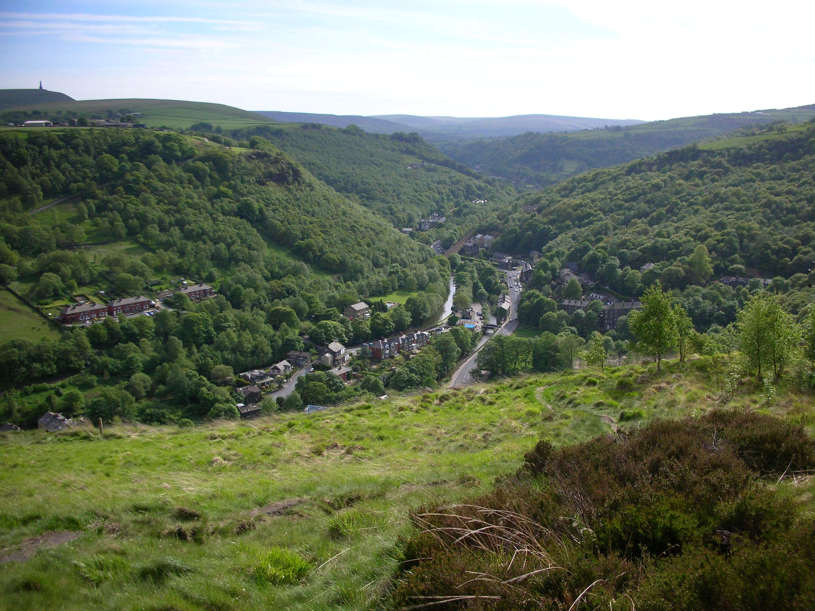 View of the Calder Valley looking South West from Heptonstall (above Hebden Bridge).